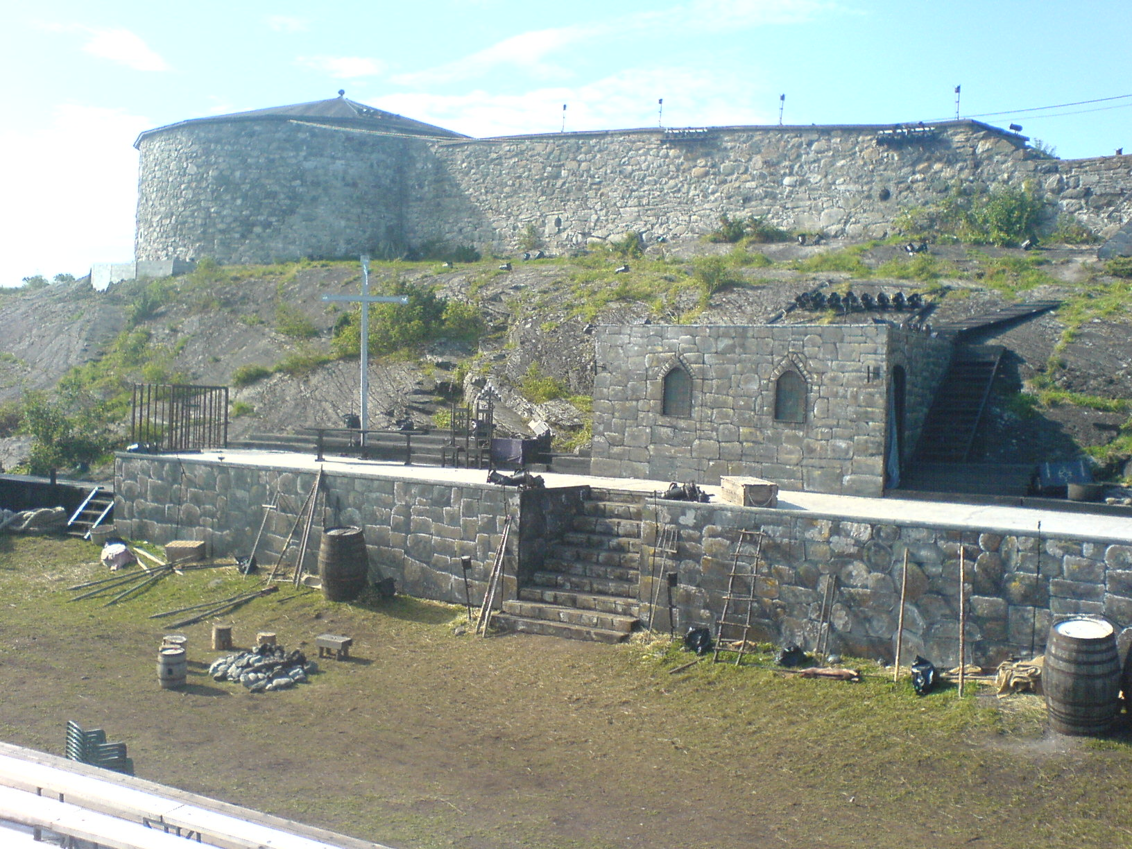 The scene of "the Opera of Olav Engelbrektsson" in Skatval, Norway. The opera is some sort of outdoors theatre.